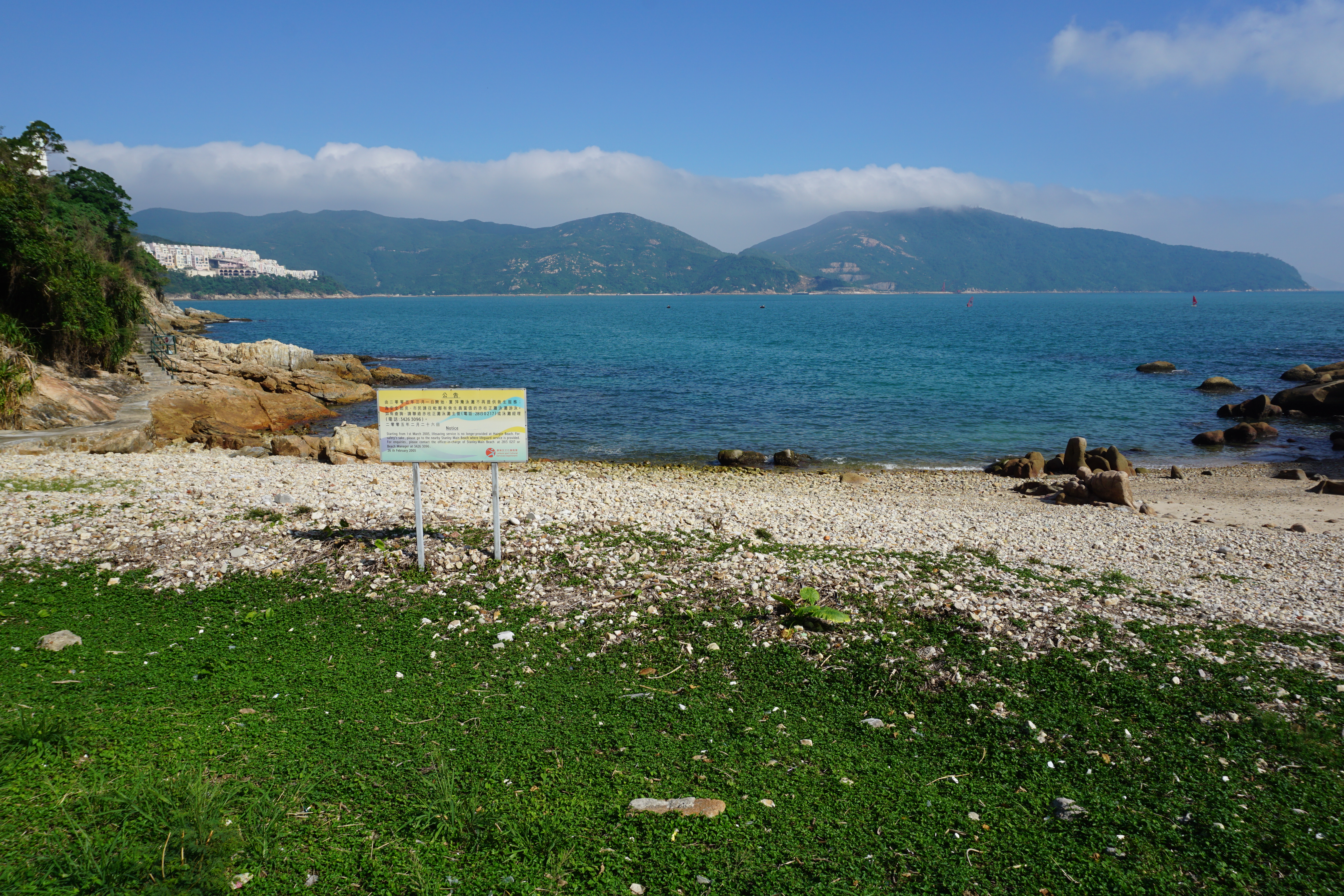 Hair Pin Beach in Stanley, Hong Kong.